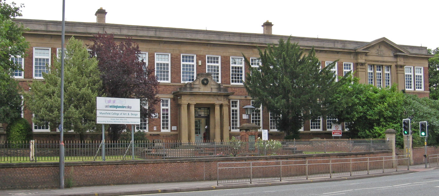 Mansfield former Technical and Art College building at Chesterfield Road South, Mansfield, original colleges opened in 1928 and 1930 respectively. A new Technical college was built at Derby Road, Mansfield, in 1960 and this site was retained for art and design. The two colleges were combined in the 1970s as a College of Further Education.